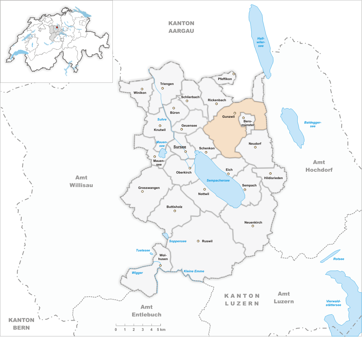 Municipality Gunzwil